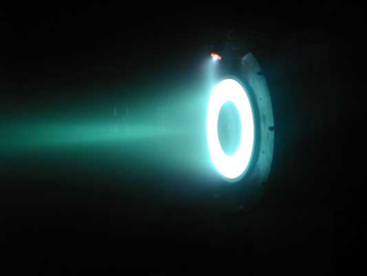 Image of a Hall thruster in operation. I took this photo and claim no copyright.